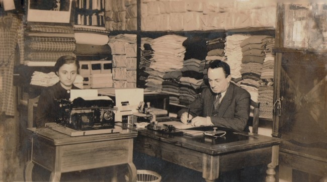 Dy njerez duke bere taksa per Fabriken e pare te Trikotazhit ne Korce